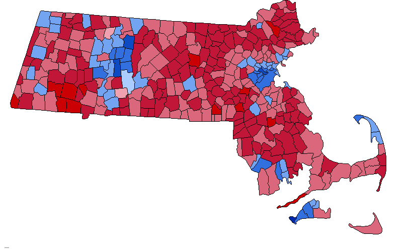 Massachusetts presidential election results by municipality, November 1984